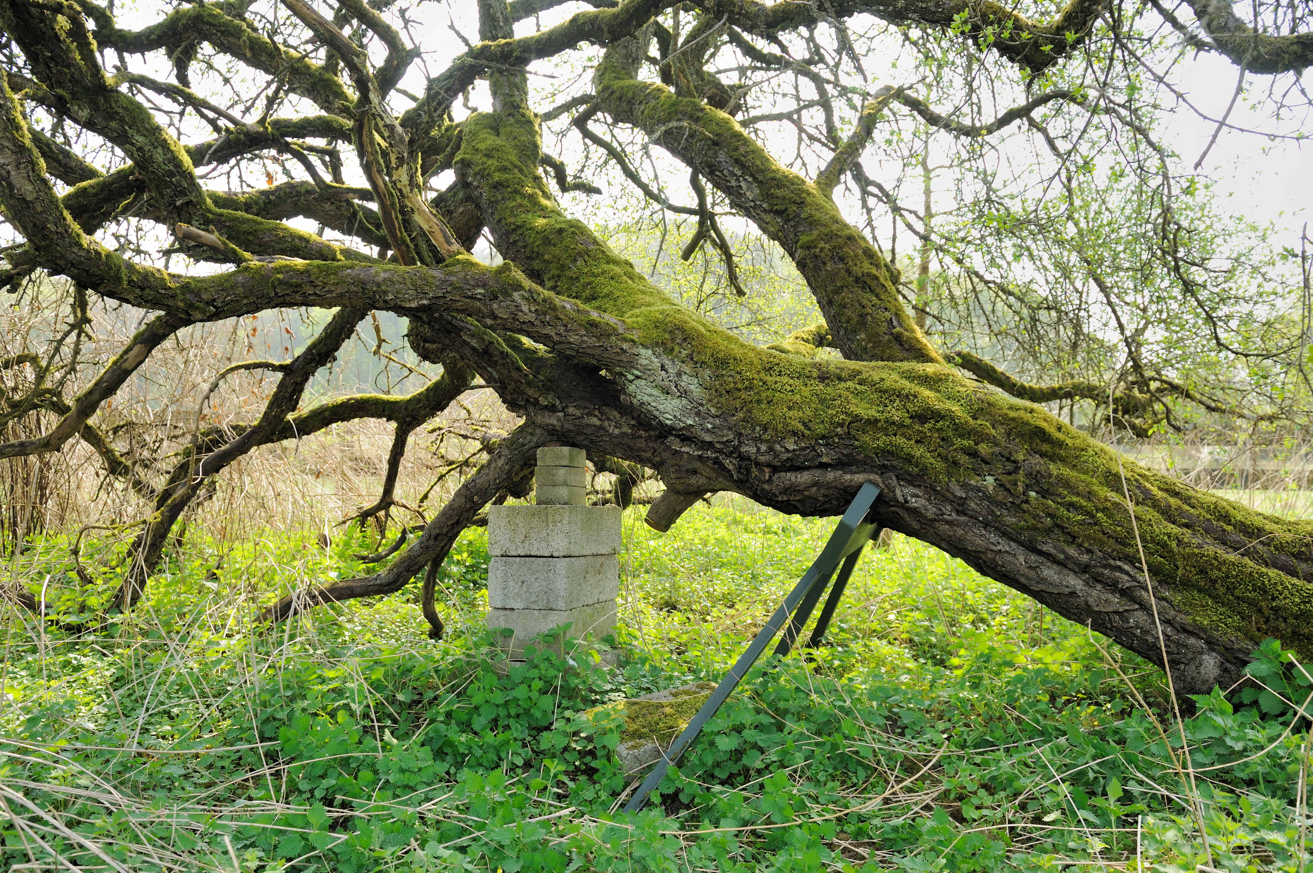 Remarkable Rhamnus cathartica at Ehner, Luxembourg